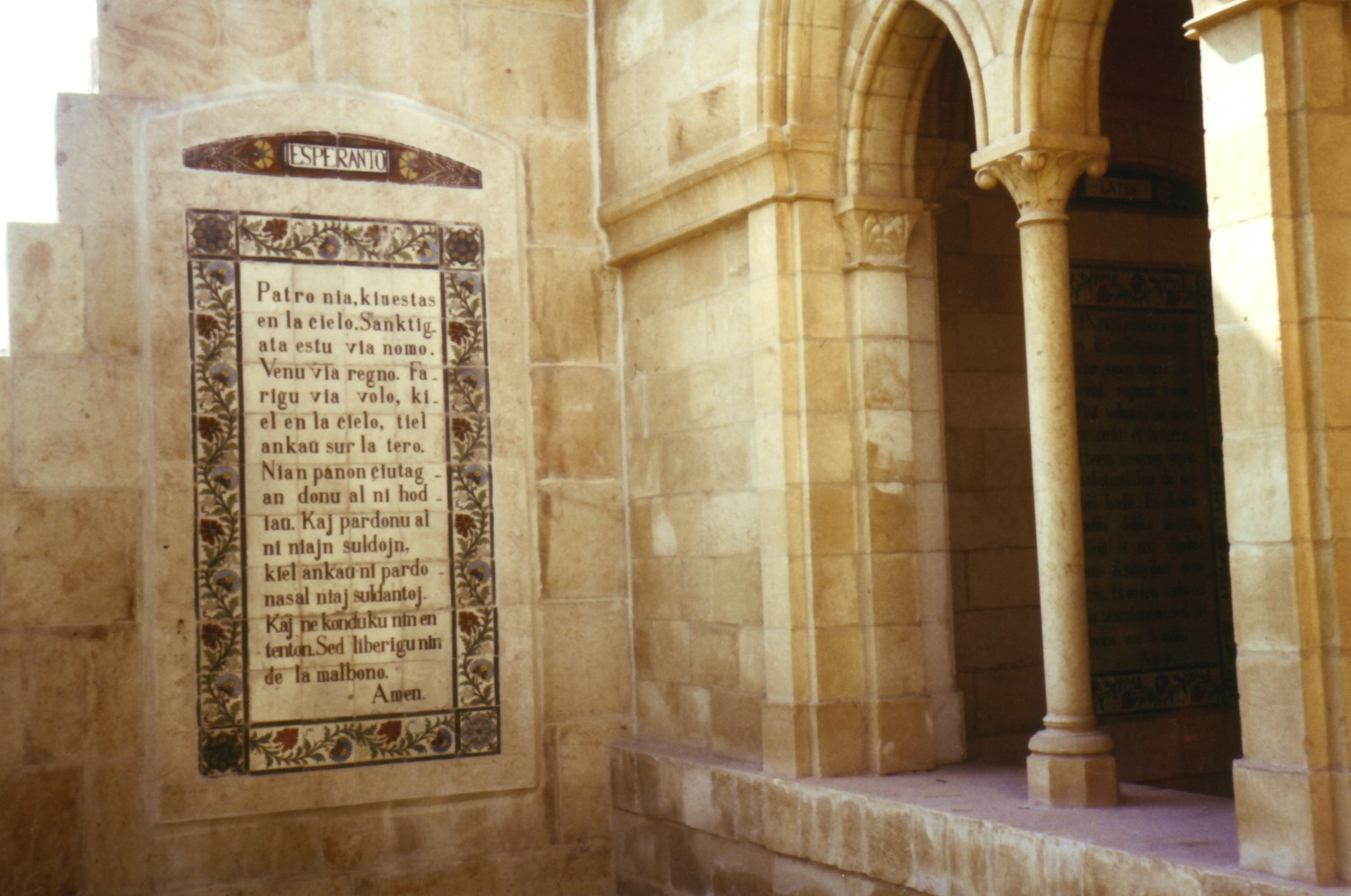 The Lord's prayer in Esperanto, in the Church of the Pater Noster in Jerusalem